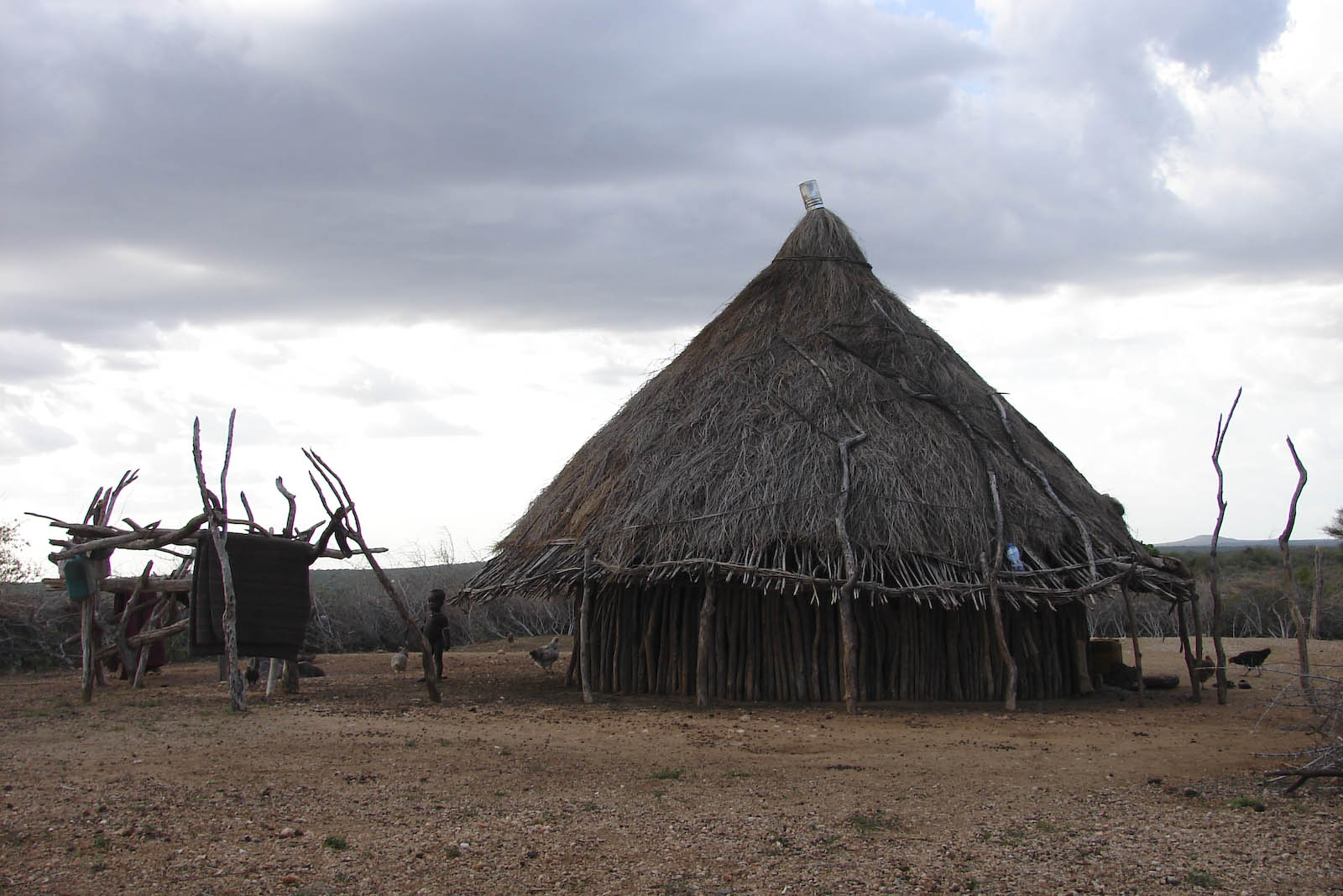 Hamer village, overcast (Ethiopia)